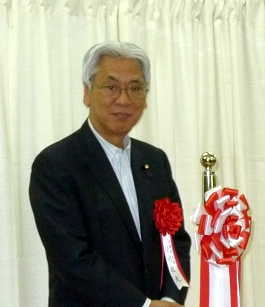 Toshio Ogawa, Senior Vice-Minister of Justice, attended the Opening Ceremony of the National Exhibition of the Prison Industry at the Science Museum, Tokyo in Chiyoda Ward, Tōkyō Metropolis on June 3, 2011. (For terms of use, see 法務省：法務省ウェブサイトのコンテンツの利用について.)